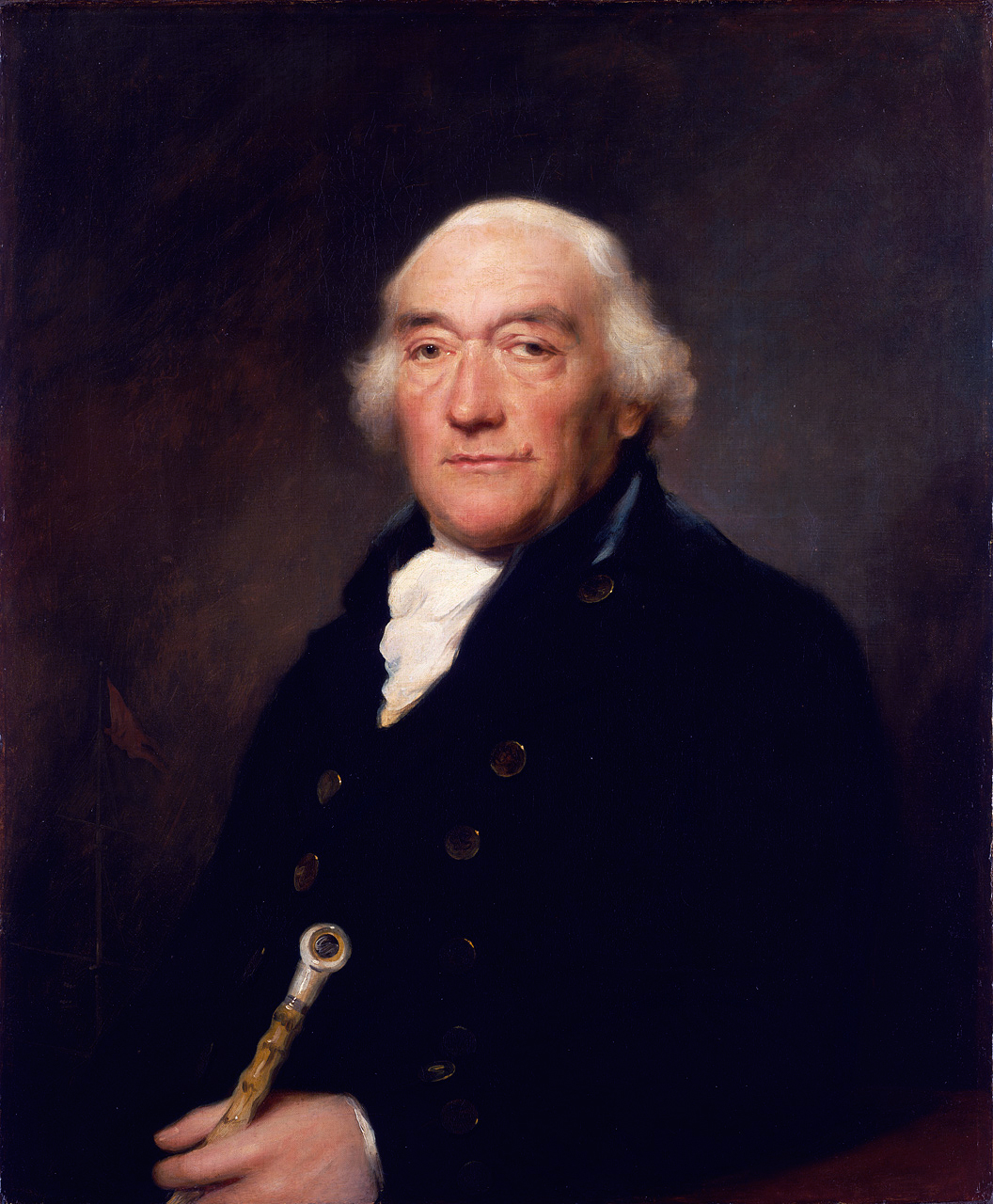 A half-length portrait of Captain William Locker, apparently as Lieutenant-Governor of Greenwich Hospital